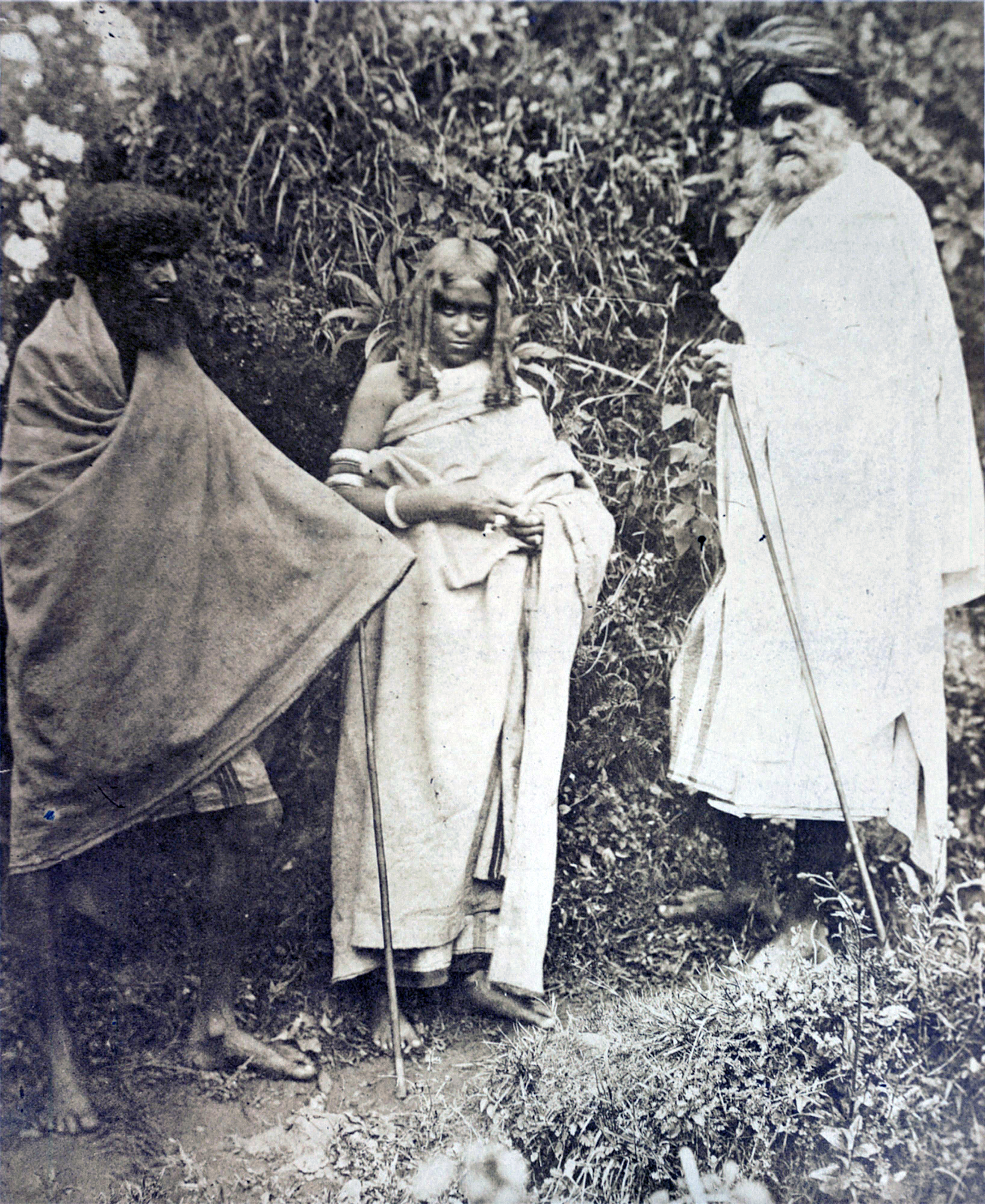 Photograph of two Toda men and a woman from the Nilgiri Hills in Tamil Nadu, taken by an unknown photographer from the Madras School of Arts in c. 1871-72. This photograph forms Plate III of James Wilkinson Breeks 'An Account of the Primitive Tribes and Monuments of the Nilgiris' (India Museum, London, 1873). Breeks was the Commissioner of the Nilgiris and wished to make a record of the indigenous hill-tribes of the region before their way of life, customs and legends died out due to increasing western influences. The Todas live in communities in the Nilgiri Hills and their livelihood revolves around the local grasslands called 'sholas' and the herds of buffalo which they tend there. They have a rich tradition of crafts and are famous for their jewellery and elegantly draped cloaks and shawls that are decorated with traditional black and red embroidery. The garments worn by both the men and women in this tribe are made of a thick coarse cotton cloth that has a red stripe or border and is hung over the left shoulder, brought across the back and forward under the right arm. The point is then flung backwards over the left shoulder again, leaving the right arm free, which allows the folds to fall down to the knees. This photograph forms Plate III of James Wilkinson Breeks 'An Account of the Primitive Tribes and Monuments of the Nilgiris' (India Museum, London, 1873).